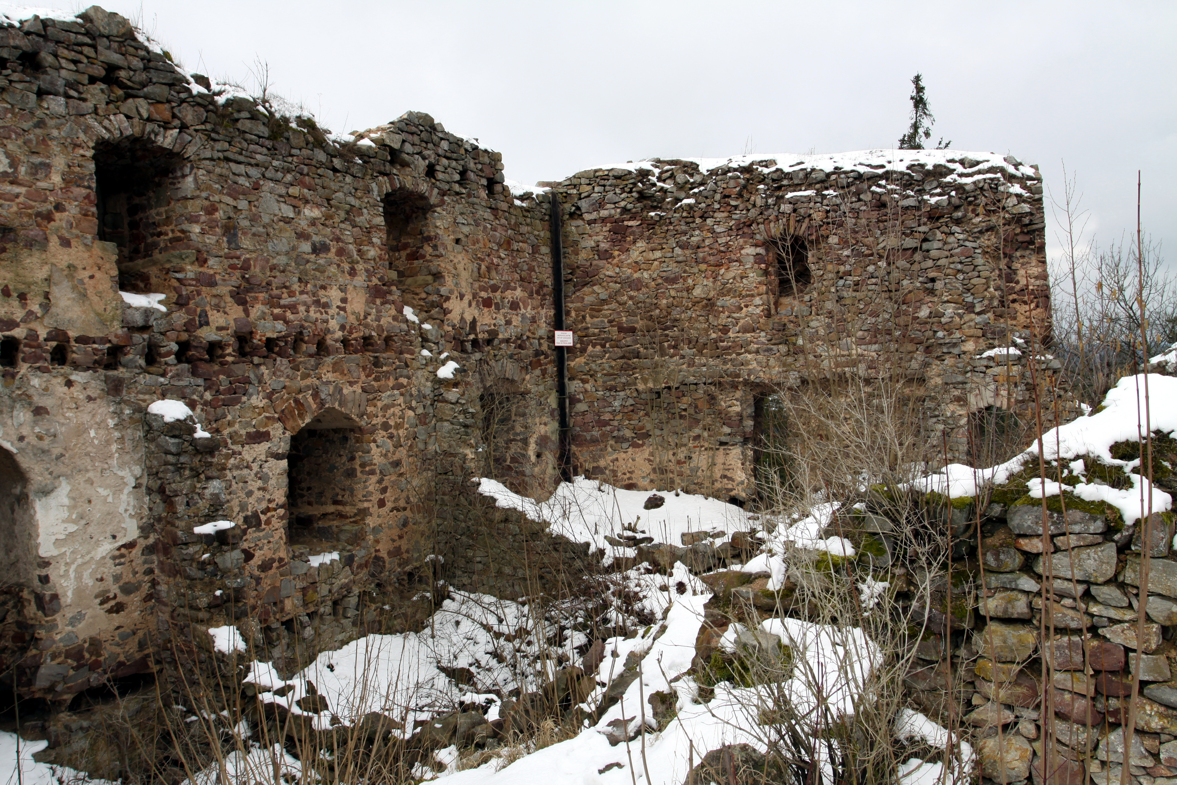 Ruins of Valdek Castle in CHKO Brdy, Czech Republic